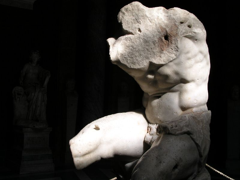 The Belvedere Torso by Apollonius at the Pio-Clementino Museum in the Vatican City